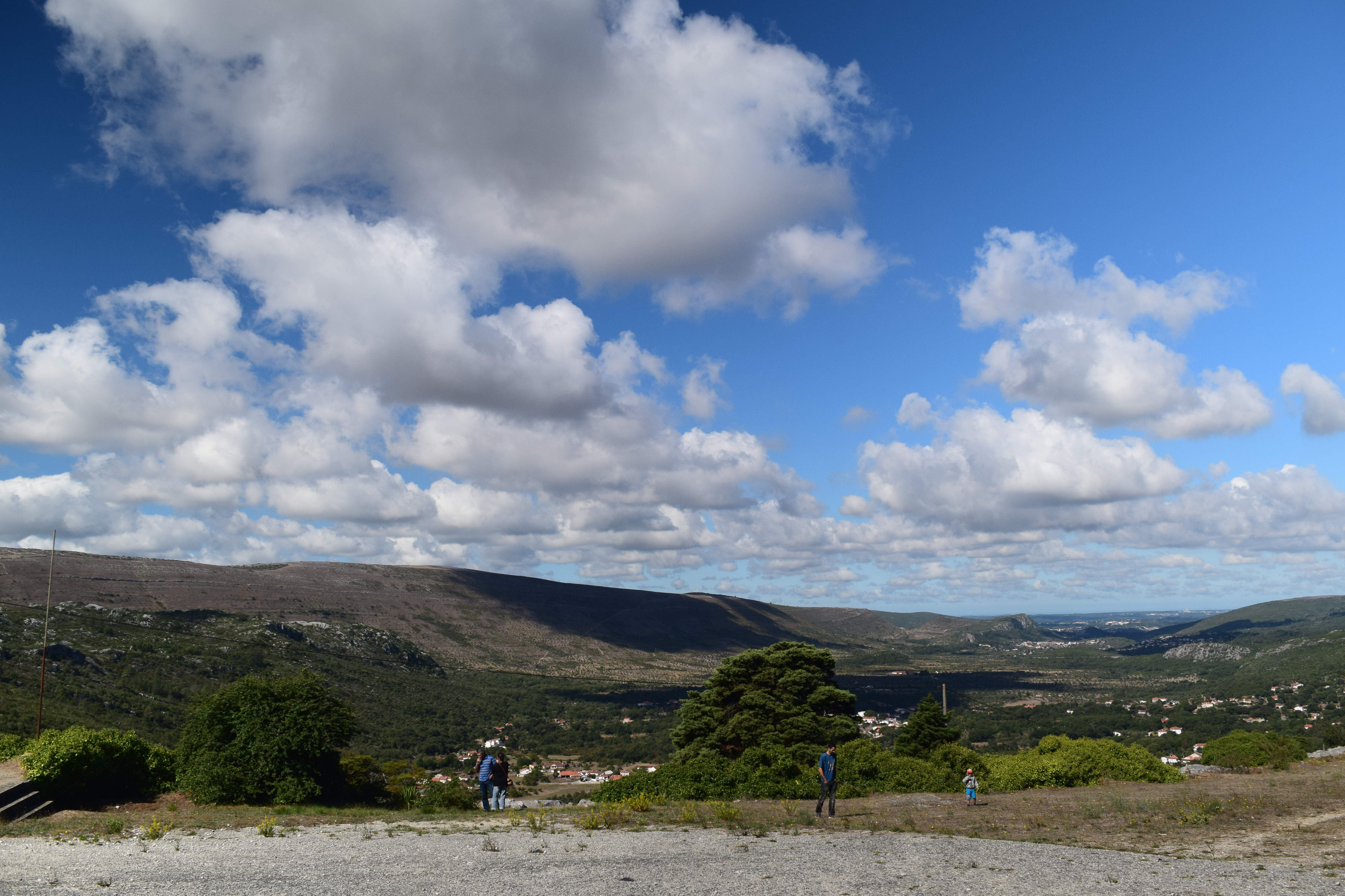 Landscape in Aires e Candeeiros